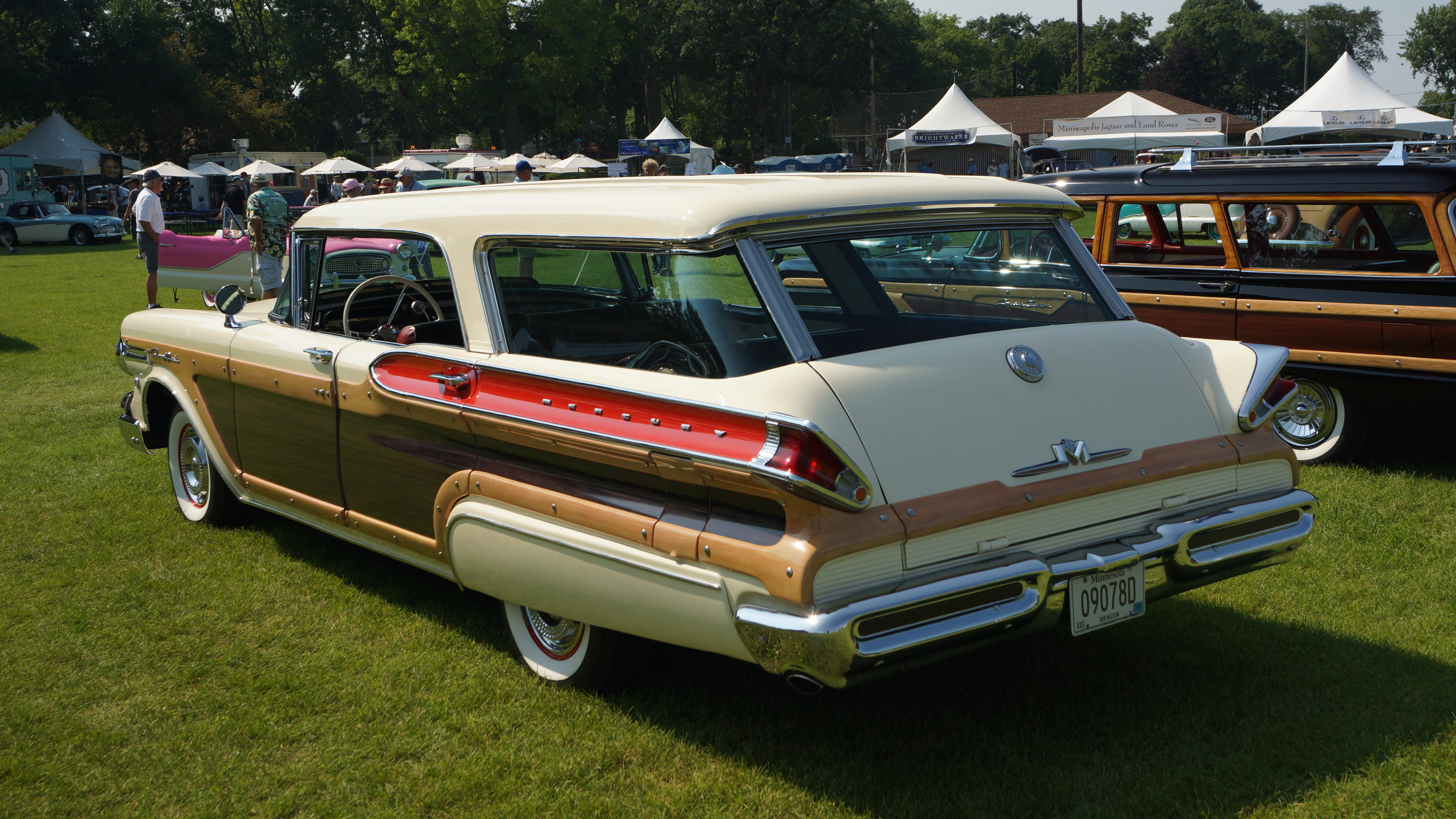 Rear view of a 1957 Mercury Colony Park station wagon, showing the contrasting red-colored trim.